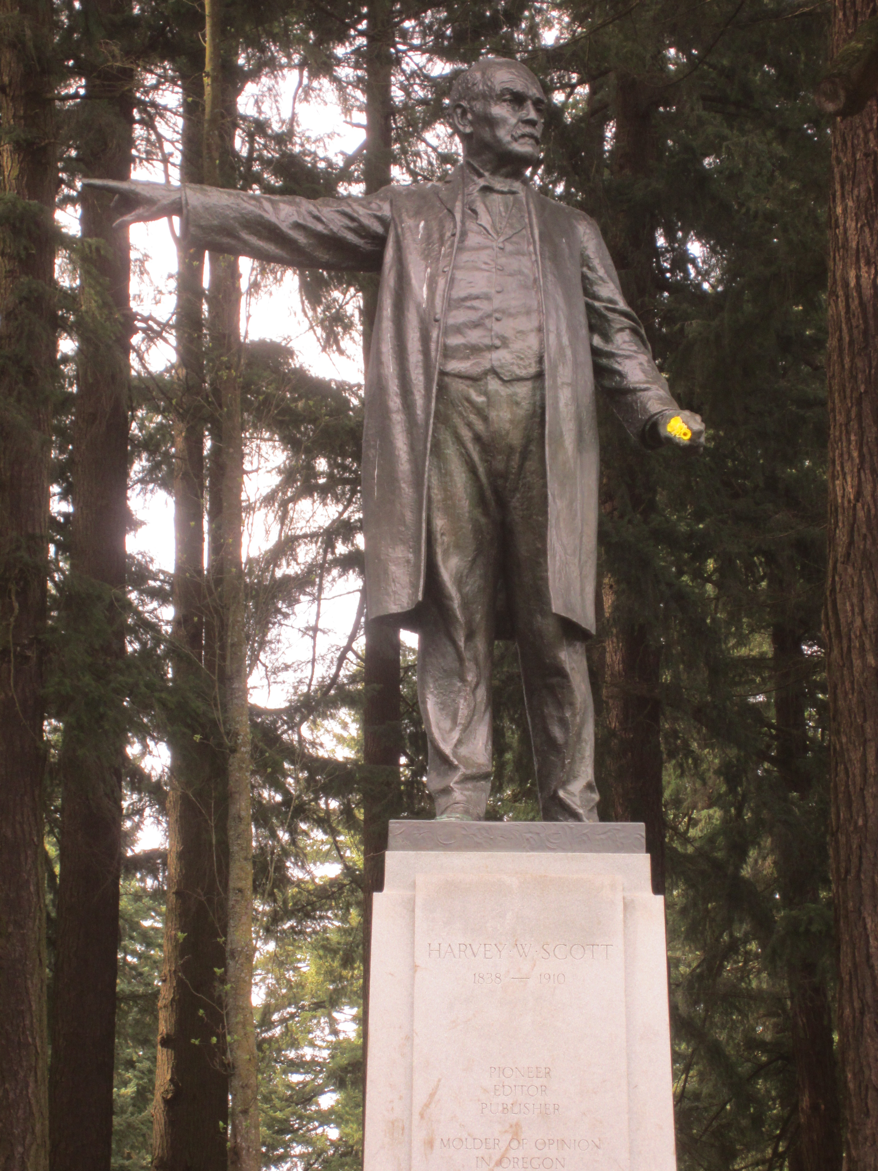 Mount Tabor Park, Portland, Oregon (2012)